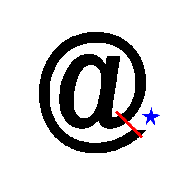 Rollings out (1)